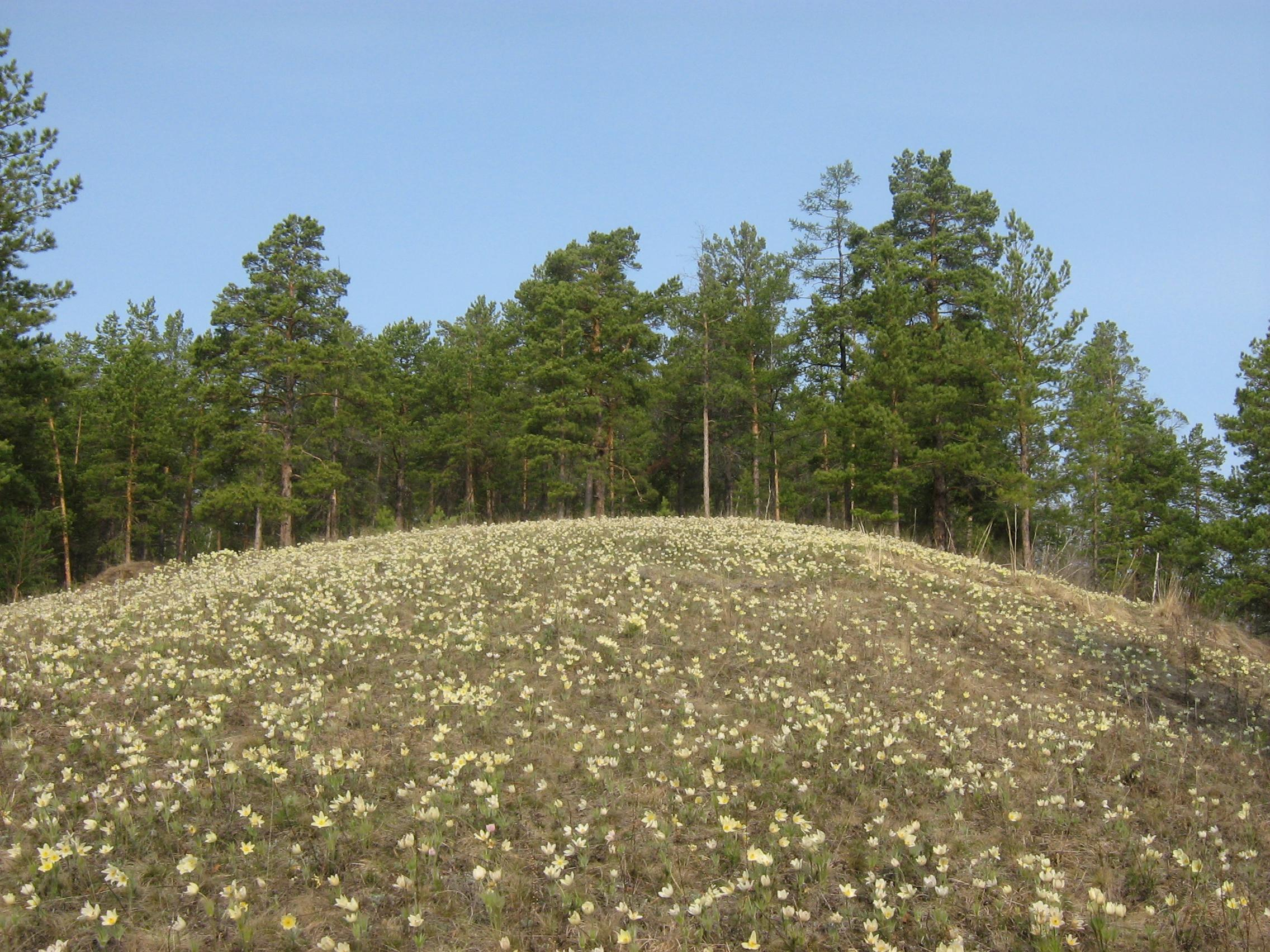 Meadow with Pulsatilla flavescens flowering, with Pinus sylvestris forest in the background. Yakutia, Siberia.